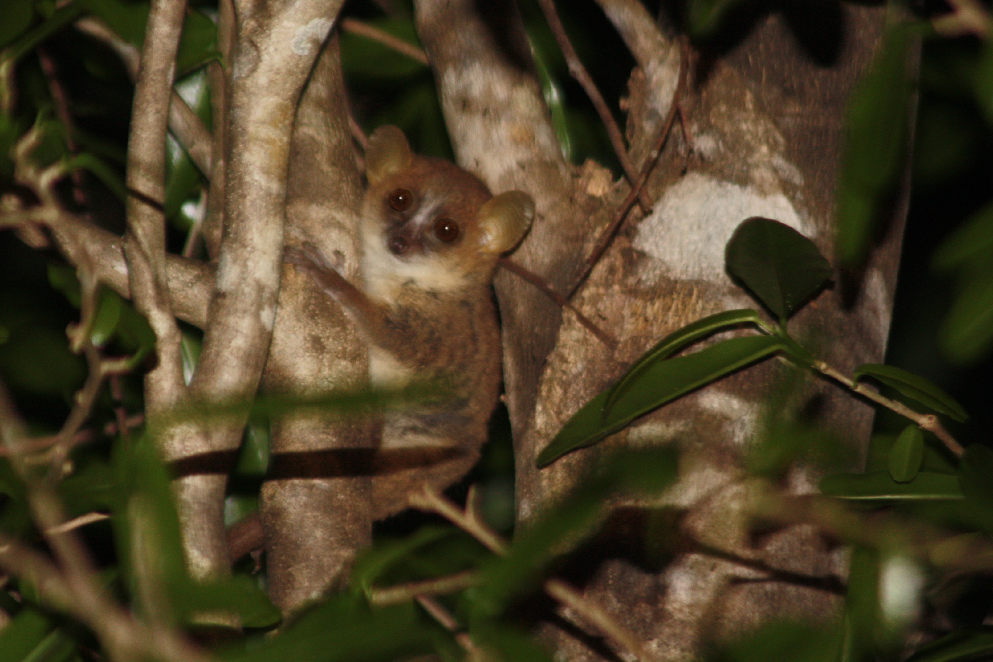 Grey mouse lemur (Microcebus murinus) in the Anjajavy Forest, Madagascar